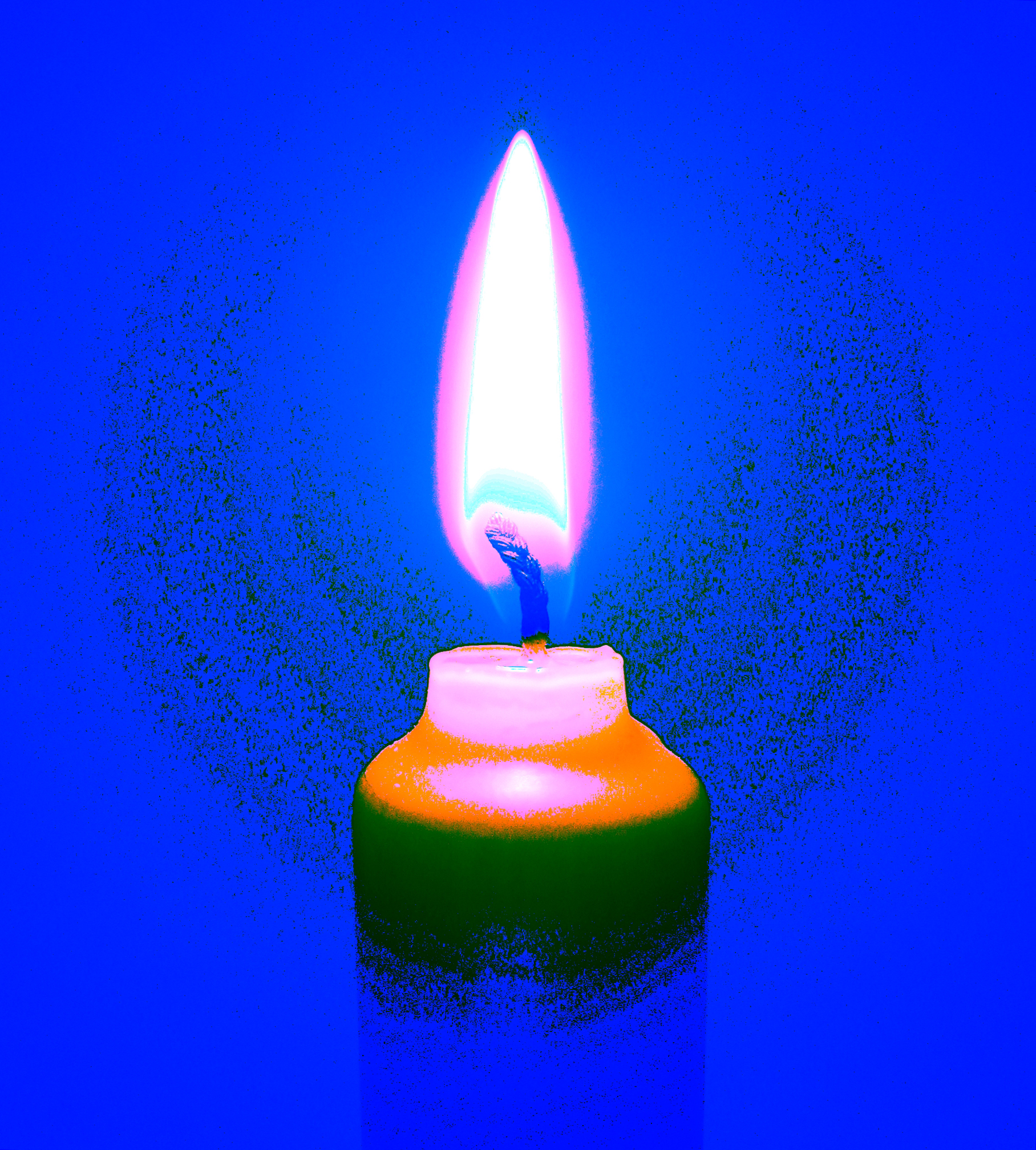 Colour-shift deliberately applied on the image of a burning candle in order to enhance the visibility of the colour-zones.